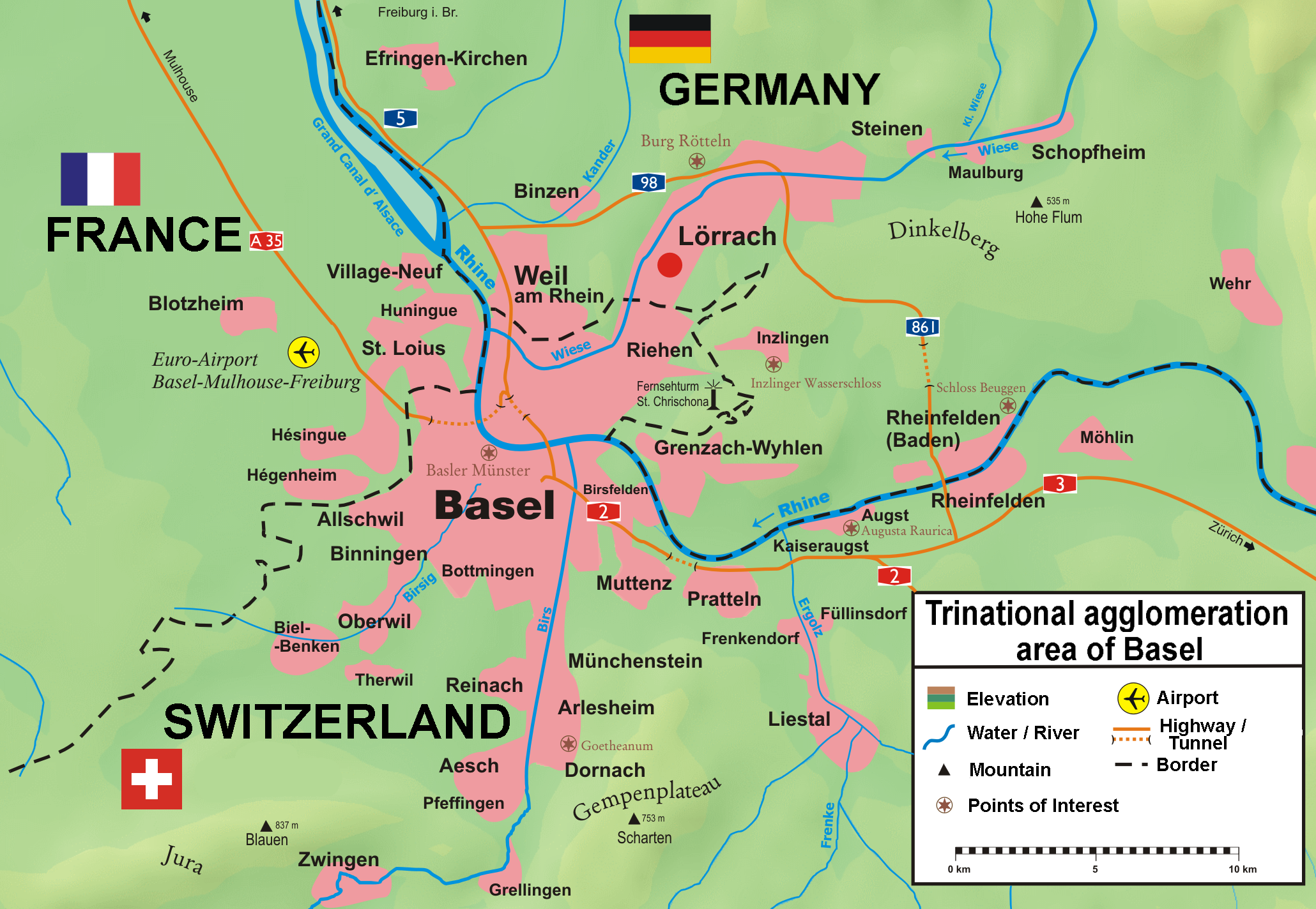 Edit of the german version by user:Joe Quimby